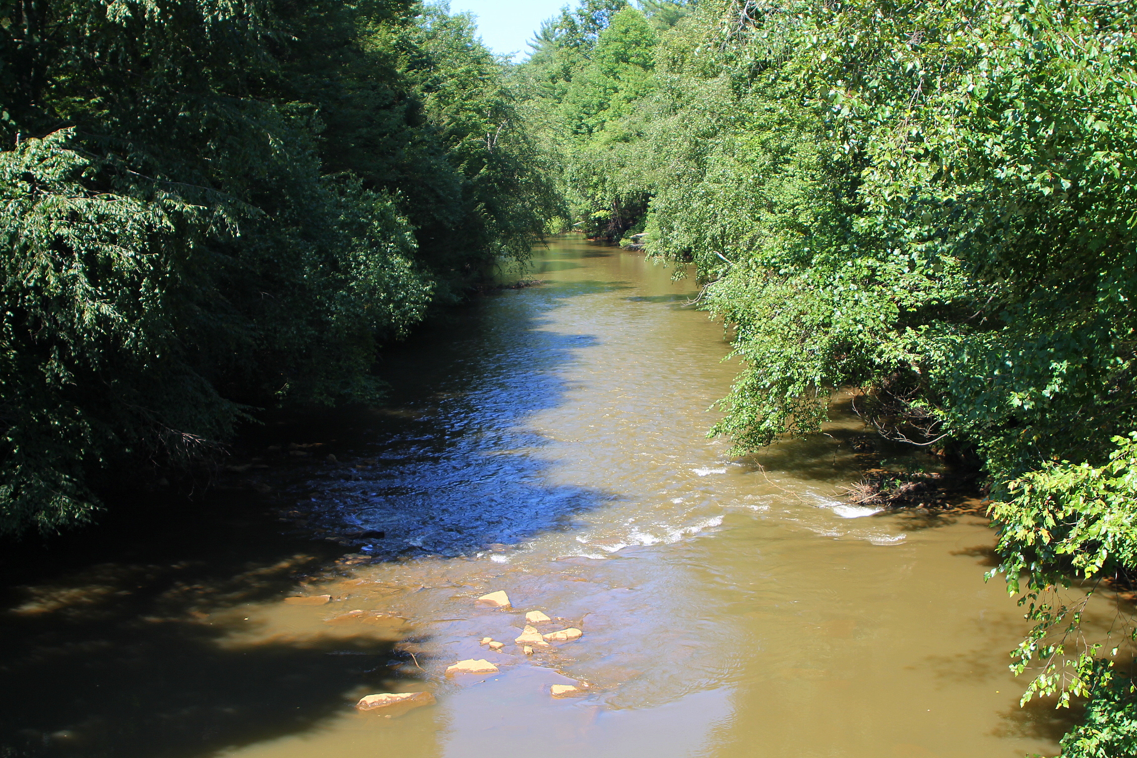 Mahanoy Creek in East Cameron Township, Northumberland County, Pennsylvania 1